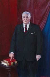 former congressman Philip J. Philbin of Massachusetts.